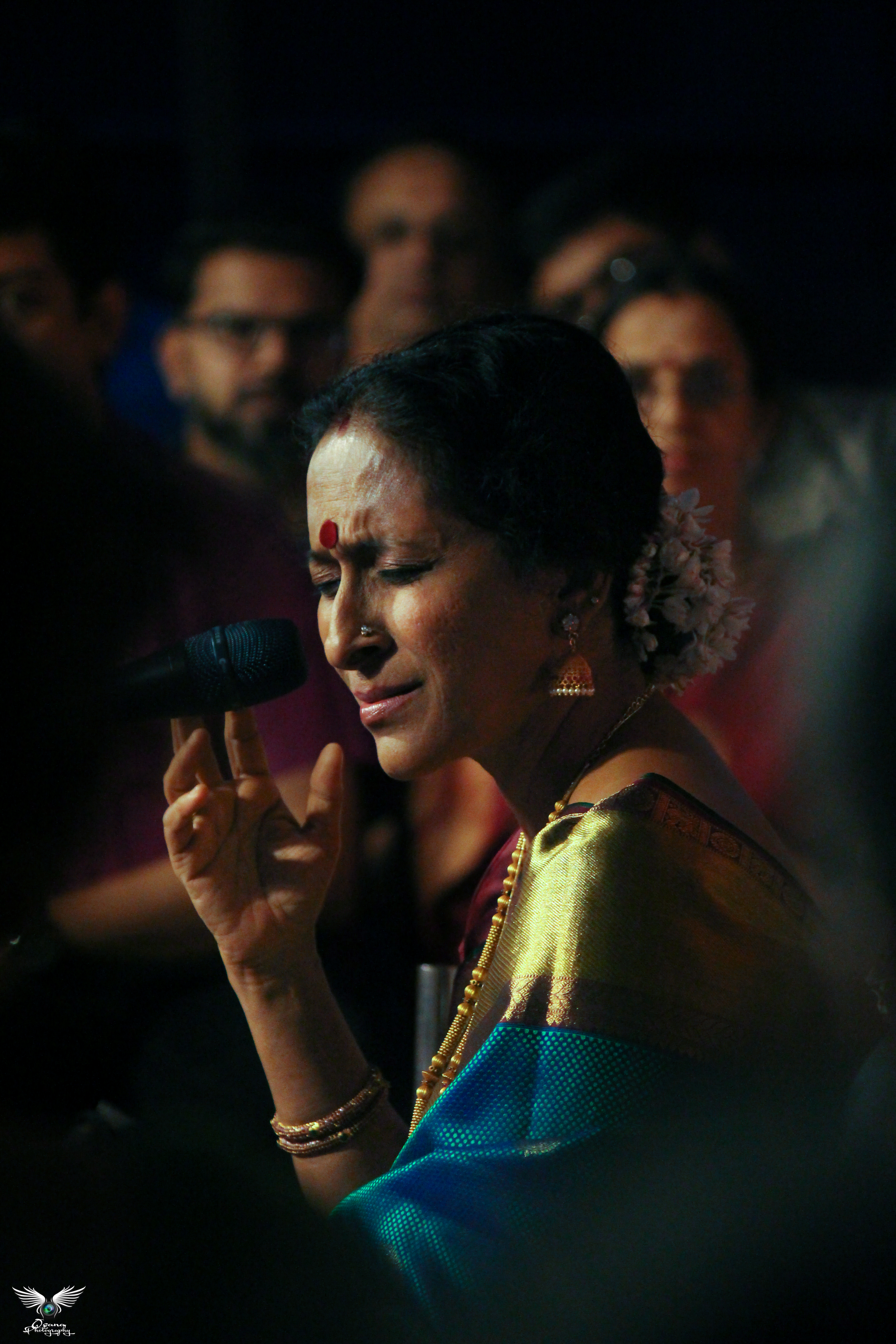 Bombay Jayashri, at Vani Mahal (Chennai)